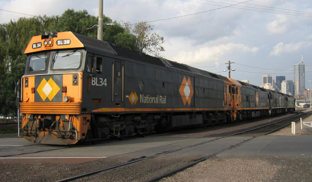 National Rail liveried BL class locomotive BL34 at the Melbourne Steel Terminal, Victoria